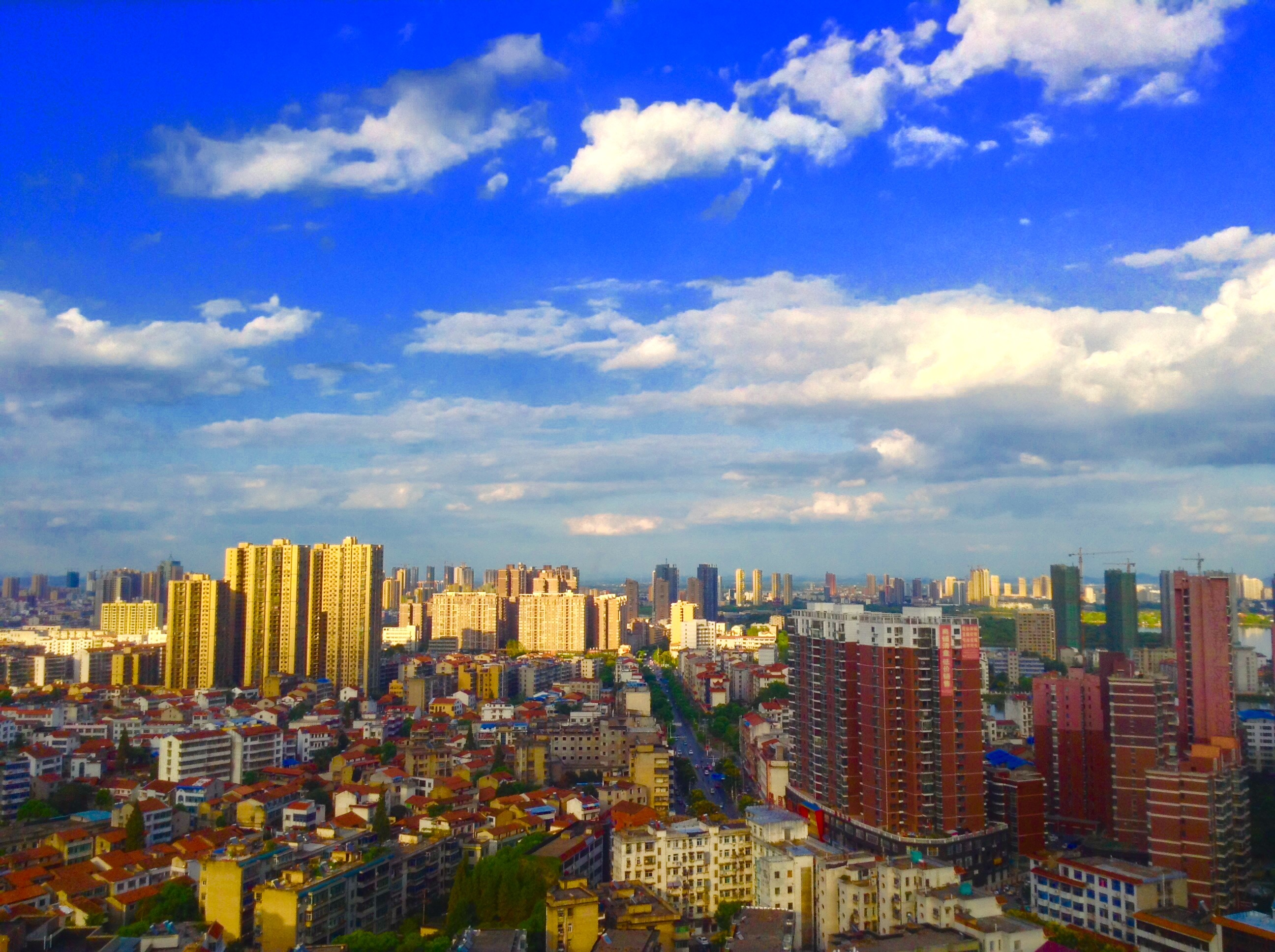 Skeline of Huanggang